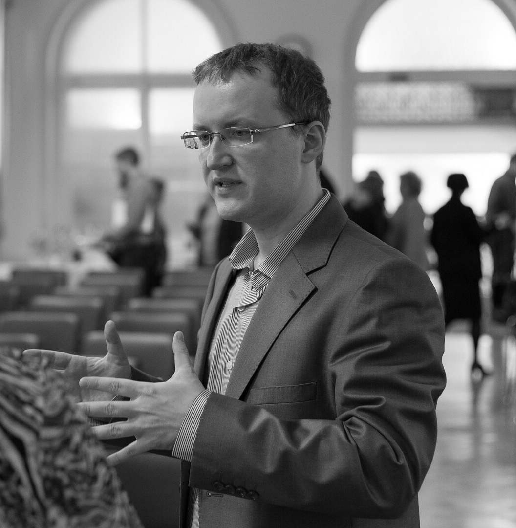 Dávid Rózsa (1982), Director General of the Hungarian Central Statistical Office Library, at the Hungarian Special Libraries Conference 2019